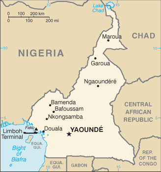 Cameroon map from CIA World Factbook (since 10 May 2006), converted from original GIF format